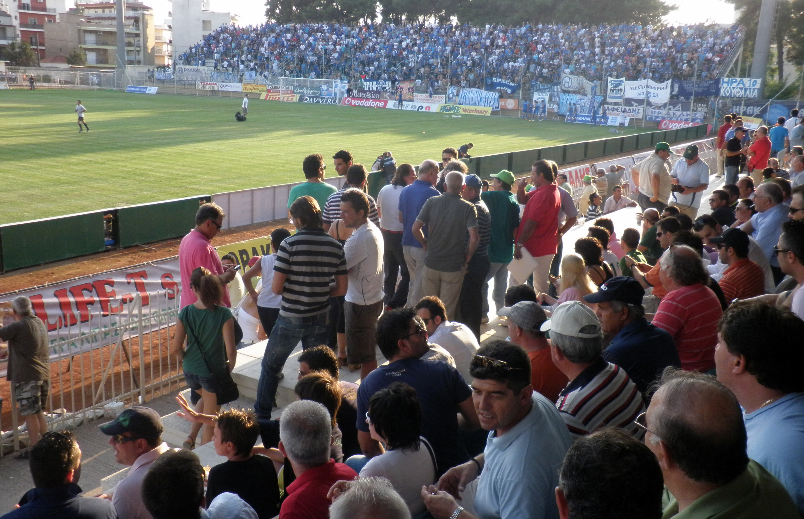 The Municipal Athletic Center of Komotini. In the foreground is the Gate 1 & 7 and straight ahead is the Gate 6 for guests. (23 August 2009, Panthrakikos FC vs Iraklis FC) Nickgleris (talk) 14:20, 21 September 2011 (UTC)